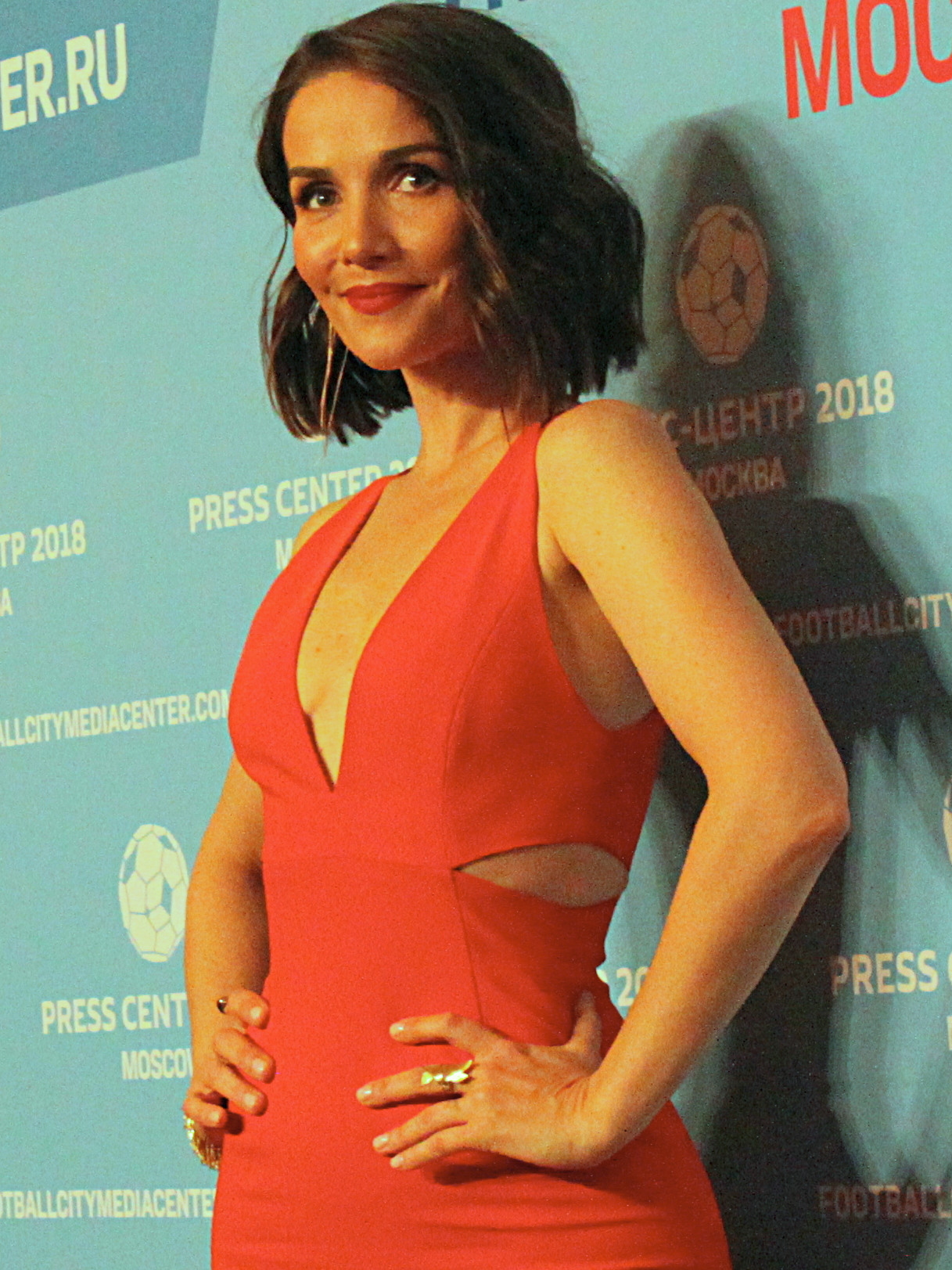 Press conference of Natalia Oreiro in the Moscow press-center (2018-06-05).